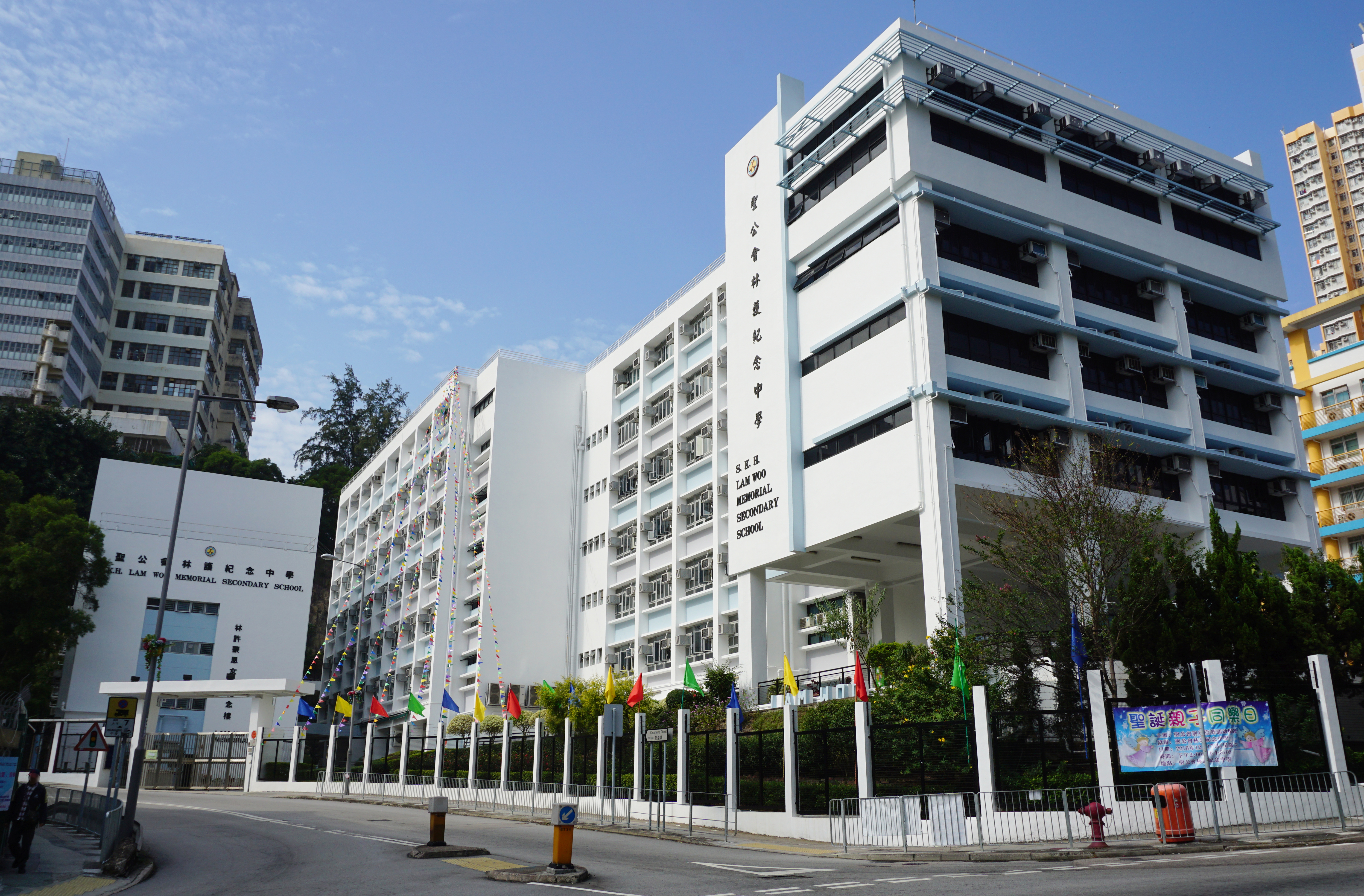 S.K.H. Lam Woo Memorial Secondary School in Kwai Hing, Hong Kong.